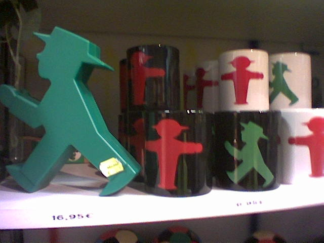 The East German traffic lights had a characteristic form of the "walking man". This figure is now sold as a souvenir.